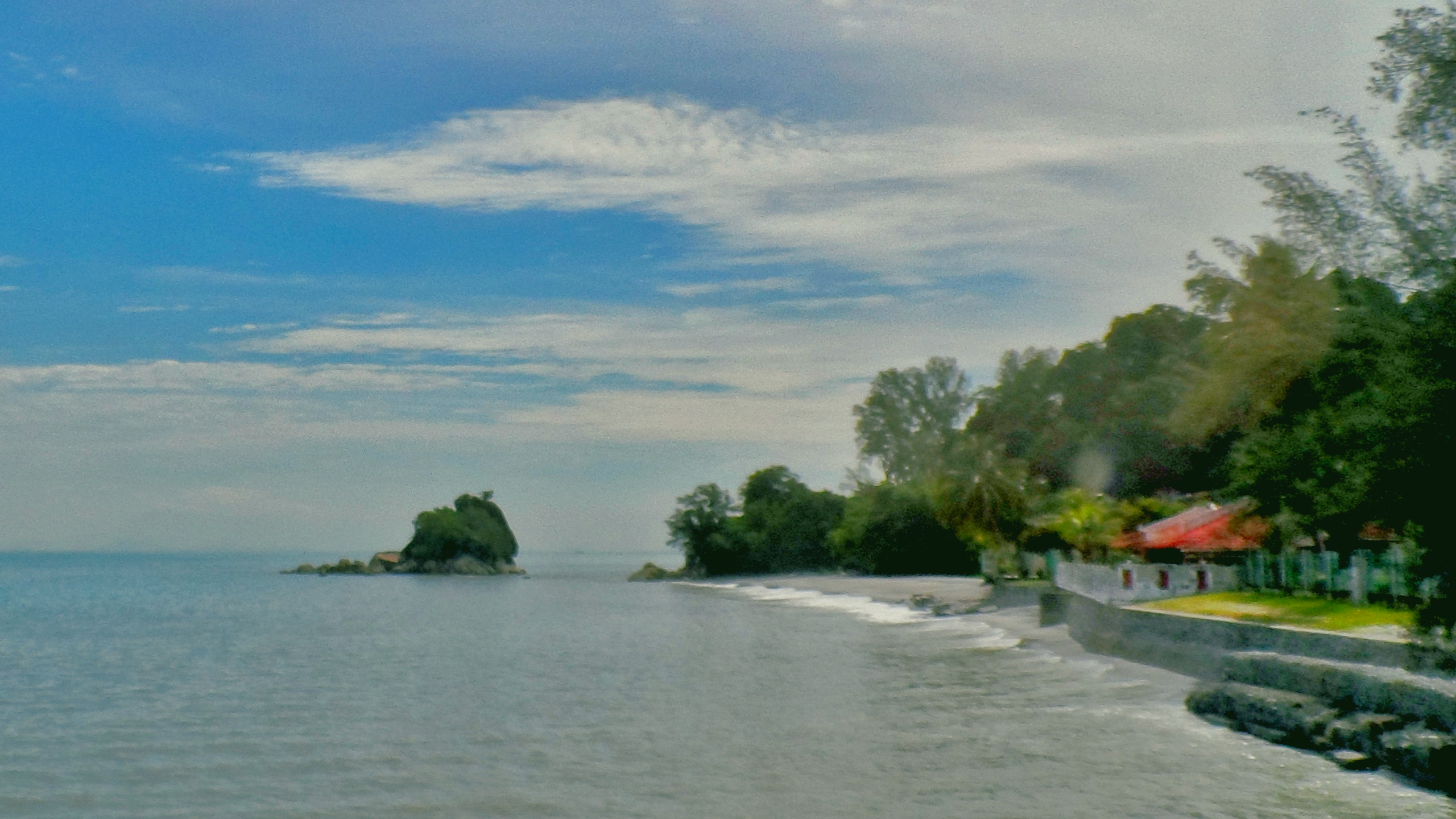 Lovers' Isle off the coast of Batu Ferringhi near the city of George Town in Penang.